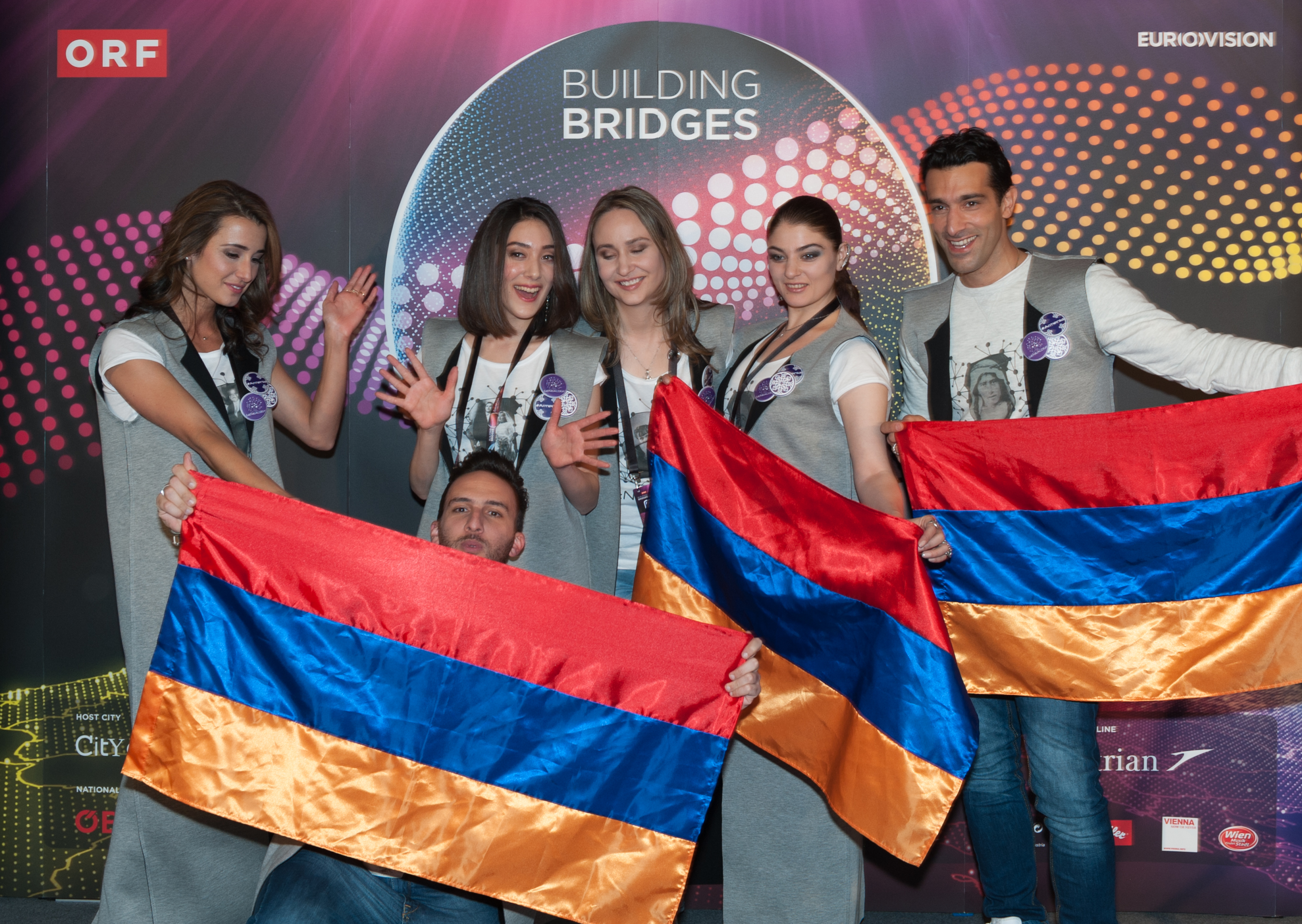 Eurovision Song Contest Vienna 2015: Genealogy